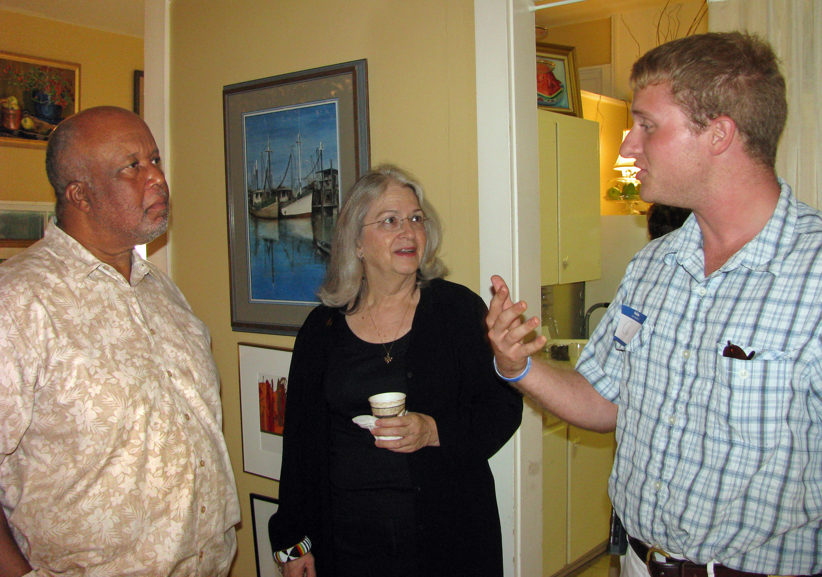 The Mississippi Democratic Club meets the second Saturday every month at the Municipal Art Gallery in Jackson. The September meeting focused on the upcoming Congressional elections. Three of the four districts in the state were represented at today's meeting: Appollos Baker for the Childers campaign in District 1, Congressman Bennie Thompson for District 2, and candidate Joel Gill for District 3. (Those are not the three people in this picture. Congressman Thompson is indeed in the picture -- on the left. The other two people were attending today's meeting as interested Mississippians.)